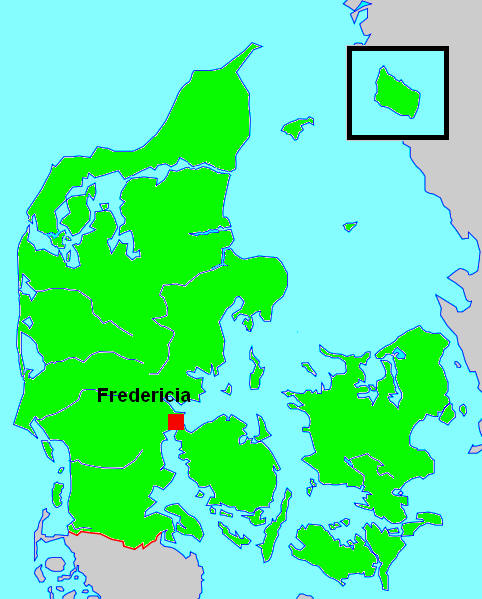 Map of Denmark with the location of the city Fredericia.